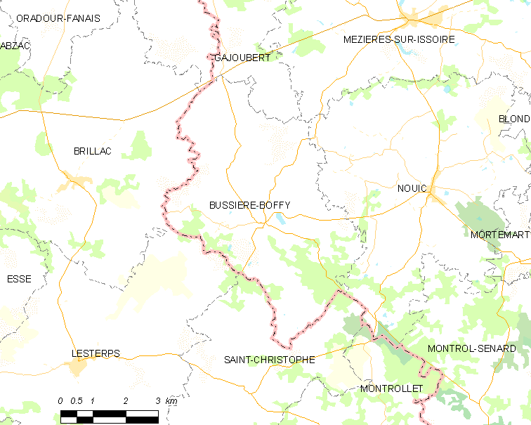 Map of French municipality Bussière-Boffy